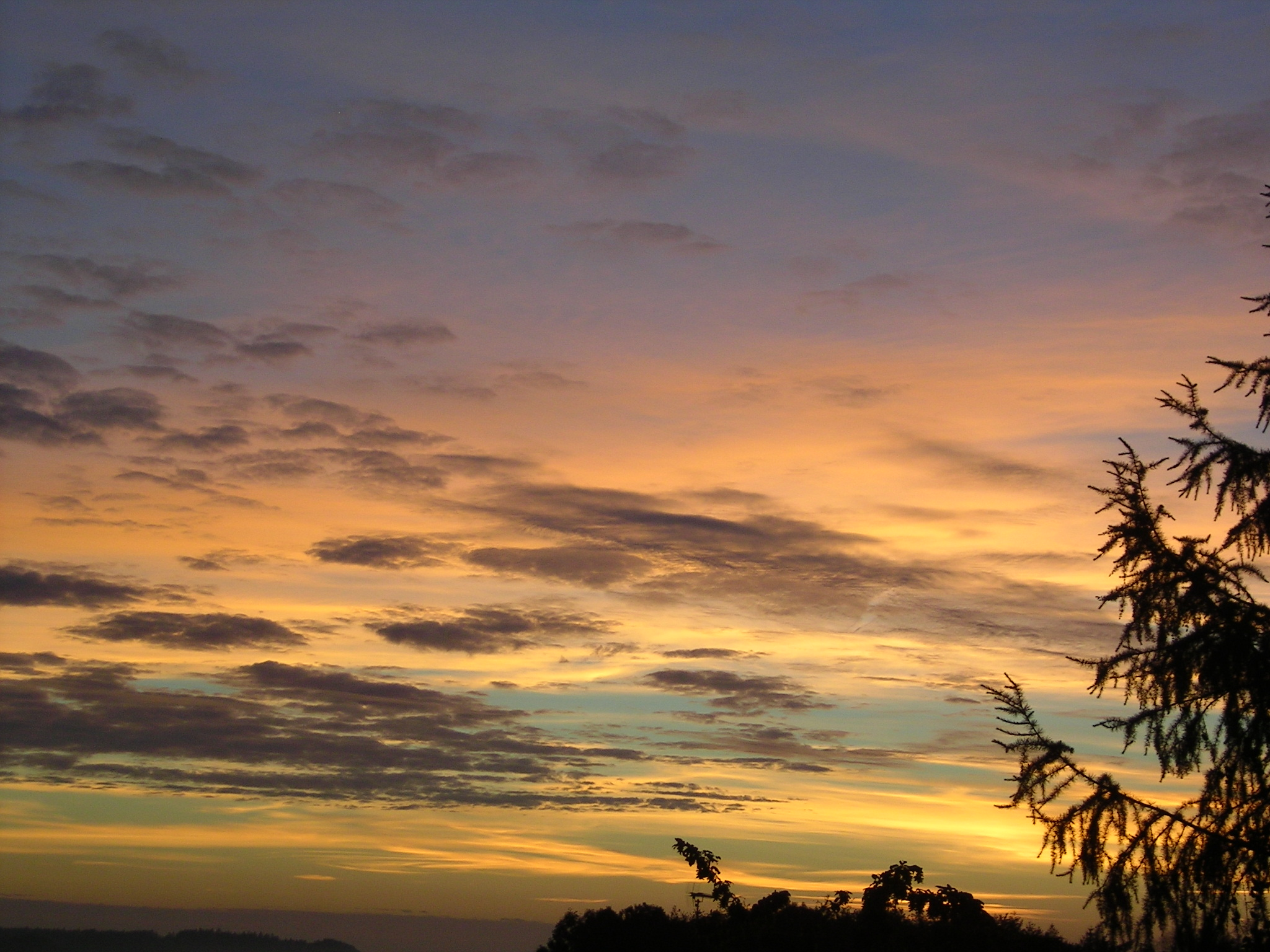 Dark clouds below light ones at sun rise